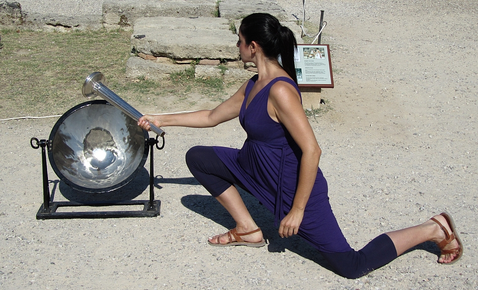 Greek actress Ino Menegaki acts as high priestess at the Temple of Hera, Olympia during the rehersals of the ceremony of the lighting of the Olympic flame for the 2010 Summer Youth Olympics. The Olympic flame is ignited with the rays of the sun focused by a parabolic mirror. It commemorates the stealing of fire from the gods by Promethius in Greek mythology